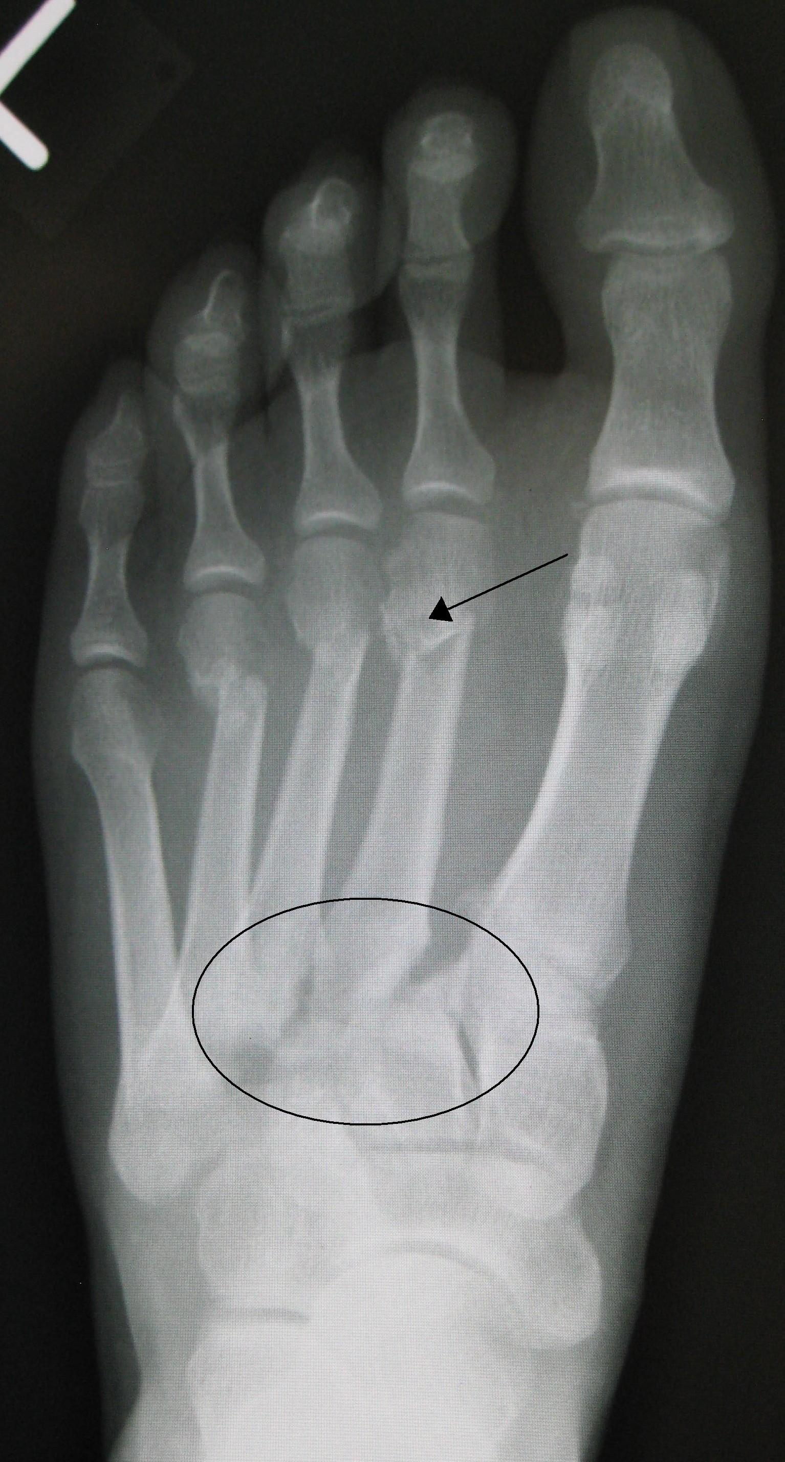 Traumatic Lisfranc fracture with fractures of the 2nd to 4th distal metatarsals.